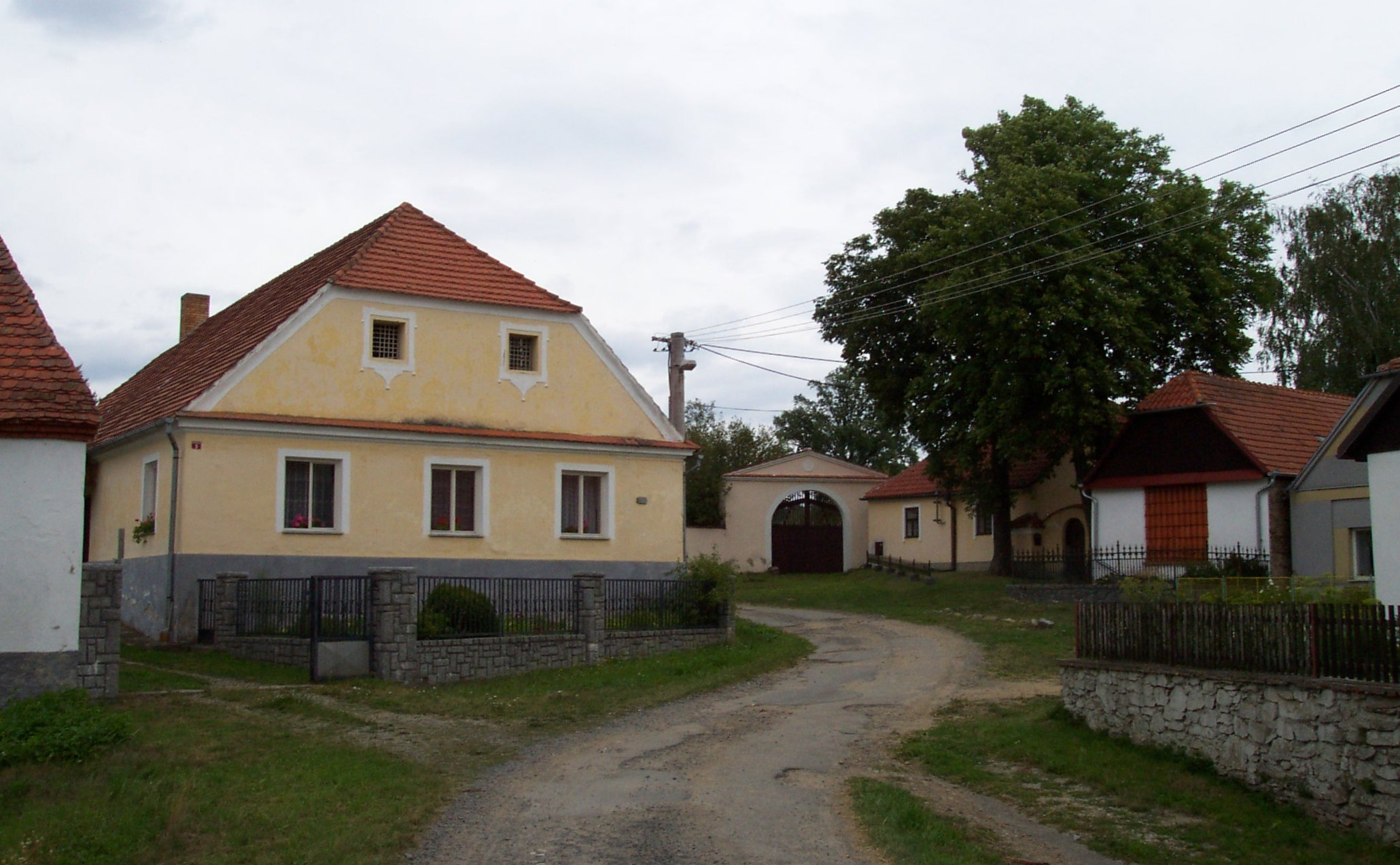 Borečnice, part of the Čížová village in Okres Písek, CZ